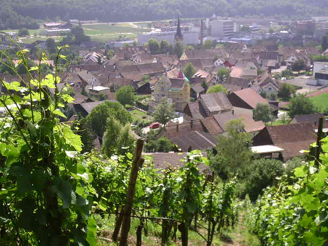 View from the vineyard to Thayngen